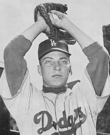 Professional baseball player Johnny Podres